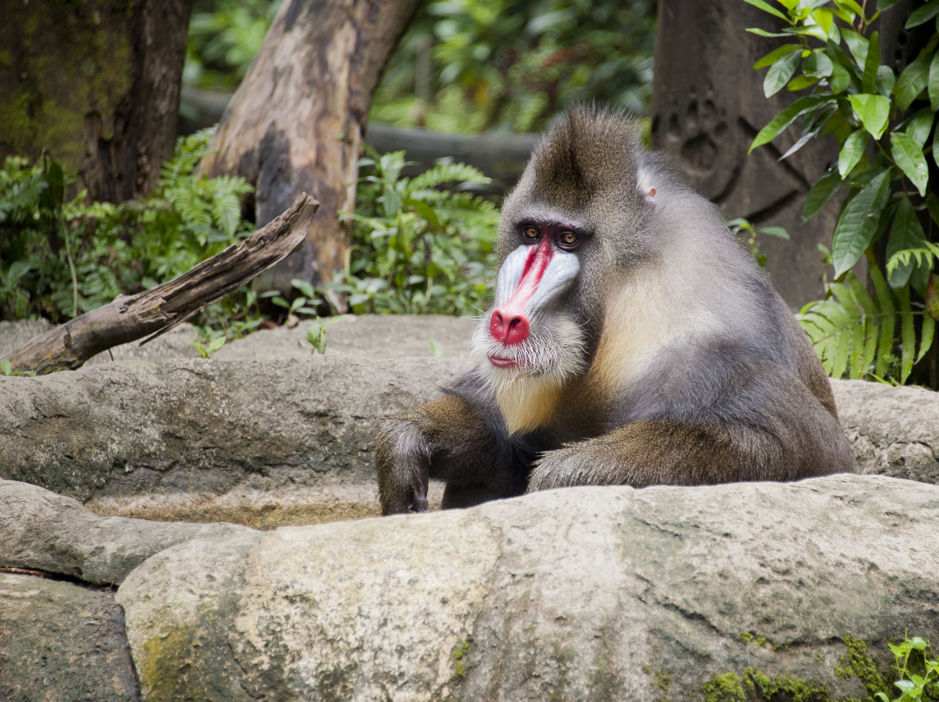 mandrill singapore zoo 2012